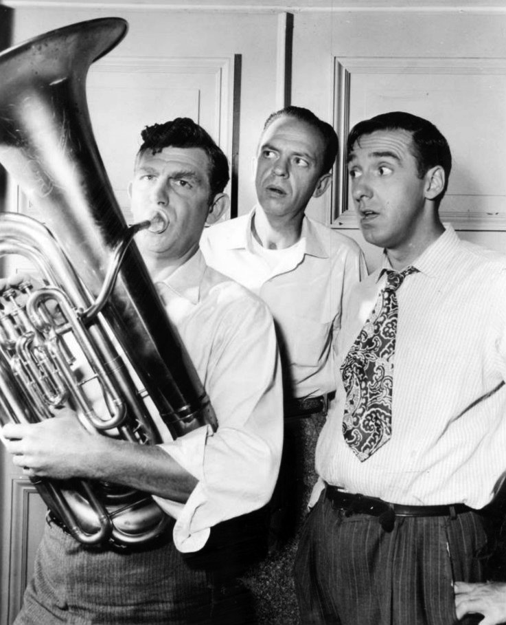 Publicity photo of Andy Griffith, Don Knotts and Jim Nabors from The Andy Griffith Show. Andy tries to help out the town band, but Barney and Gomer aren't so sure he's helping them. The episode is "The Sermon for Today".